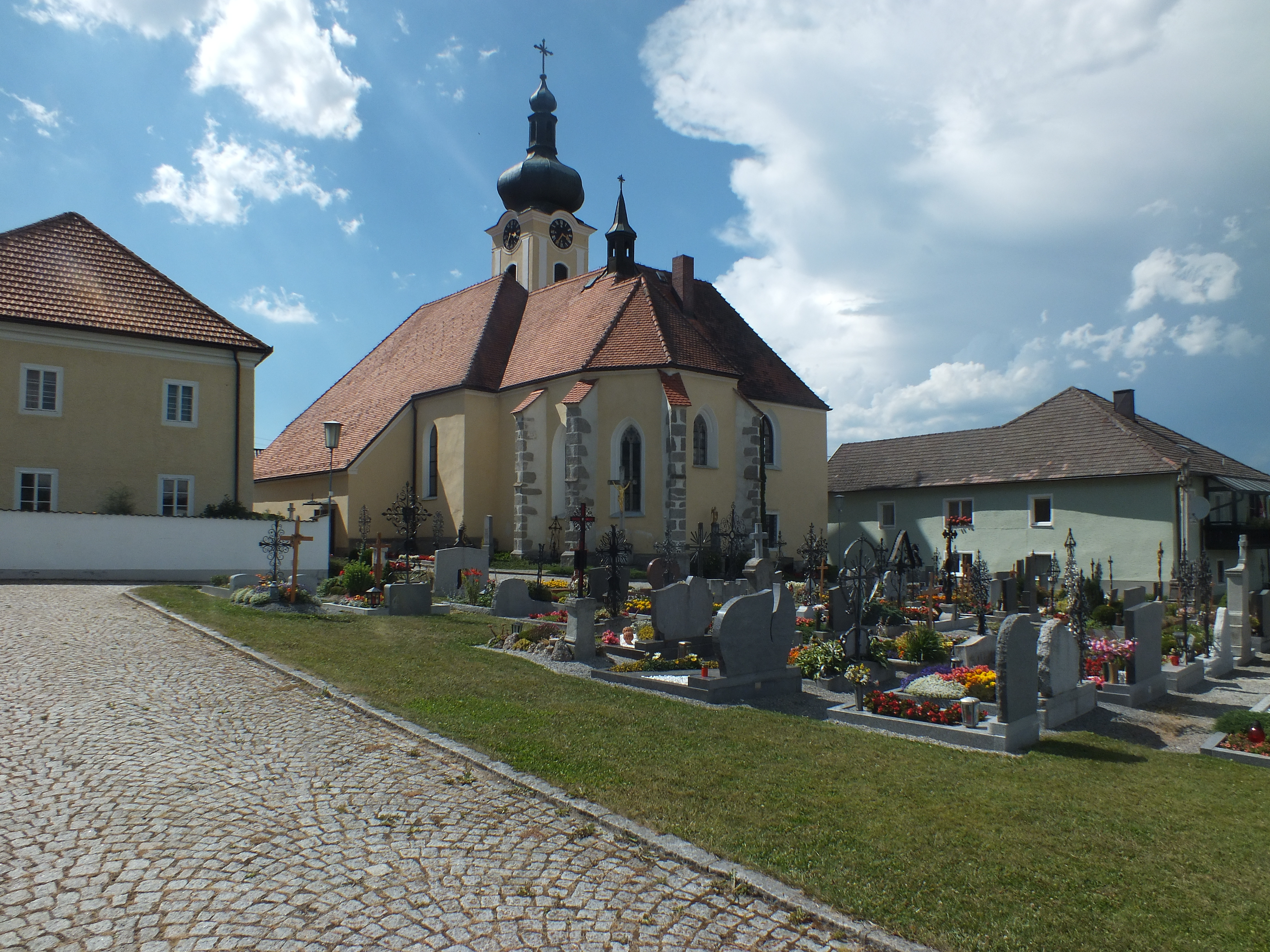 Markt Leopoldschlag (Upper Austria) - the church of Saint George